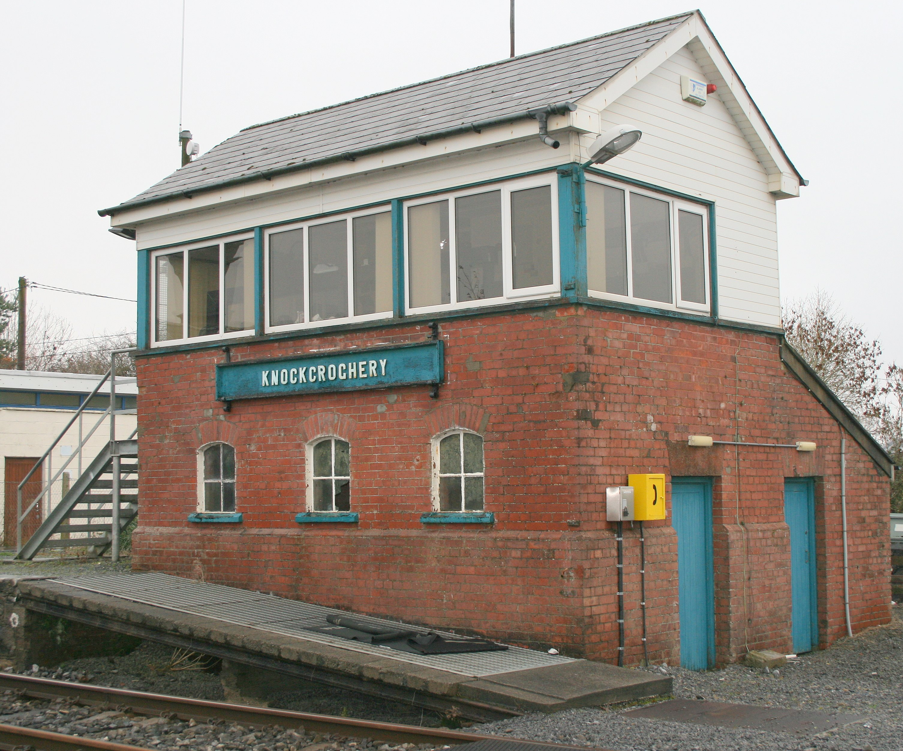 Knockcroghery signal house at level crossing and former railway station at Knockcroghery, County Roscommon, Ireland.